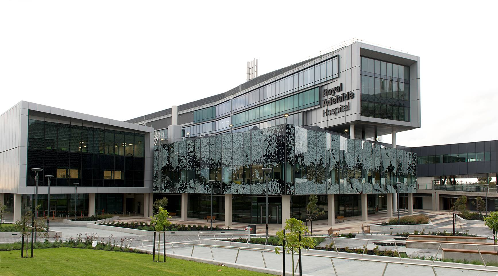 NRAH